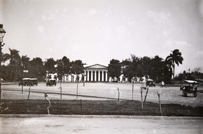 The Court of Justice on the 'Stadhuisplein' (Town Hall Square) at Batavia